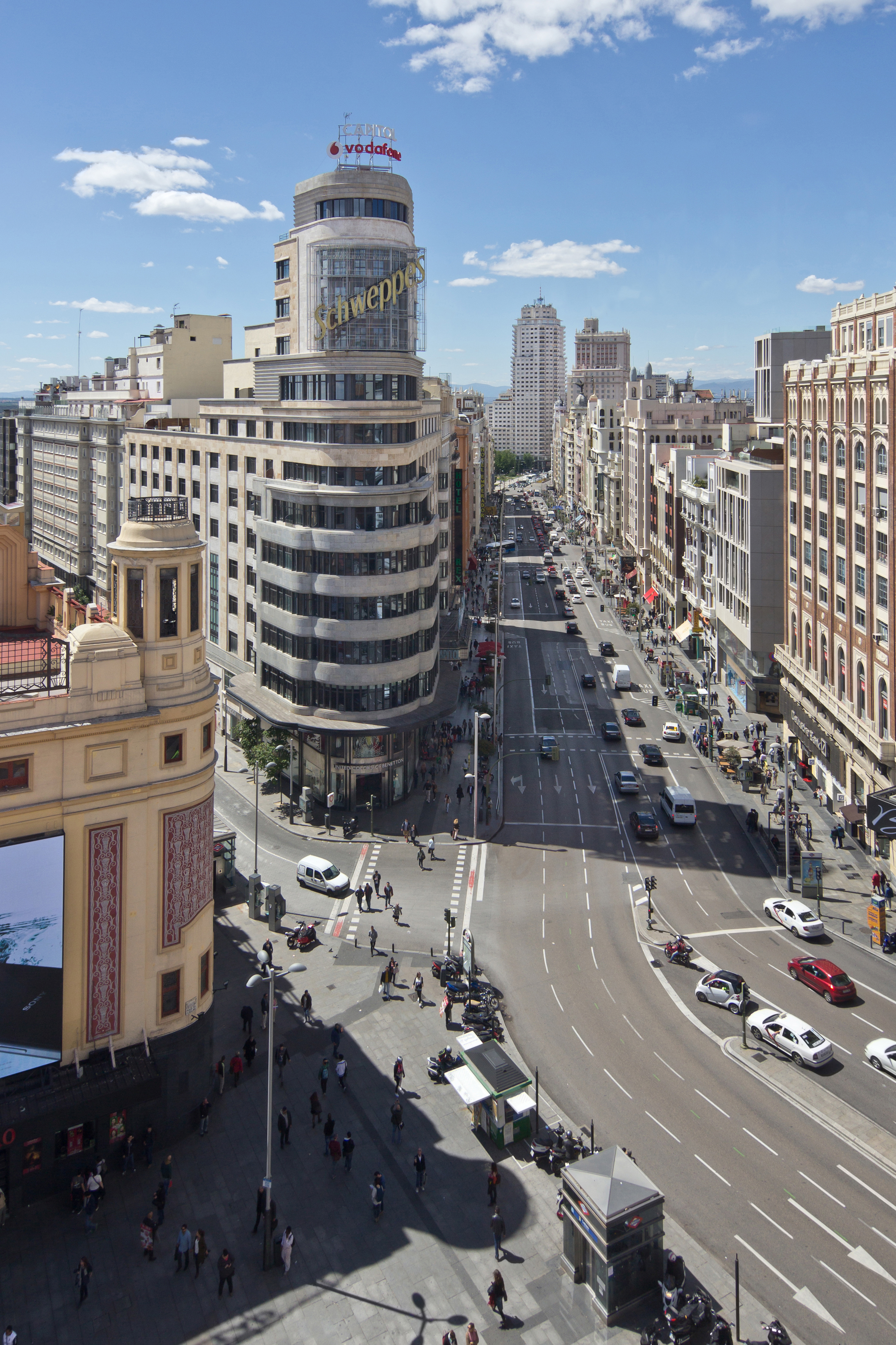 Gran Vía Street, Madrid, Spain.